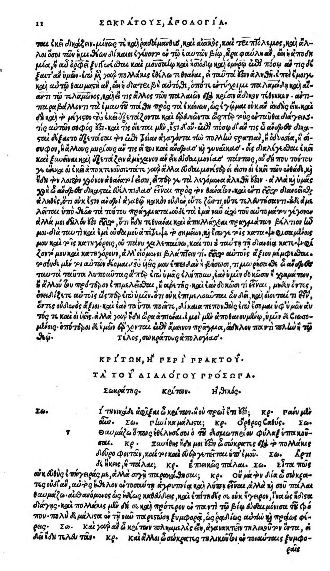 The beginning of the Crito, in the first edit. Published Venice 1513.